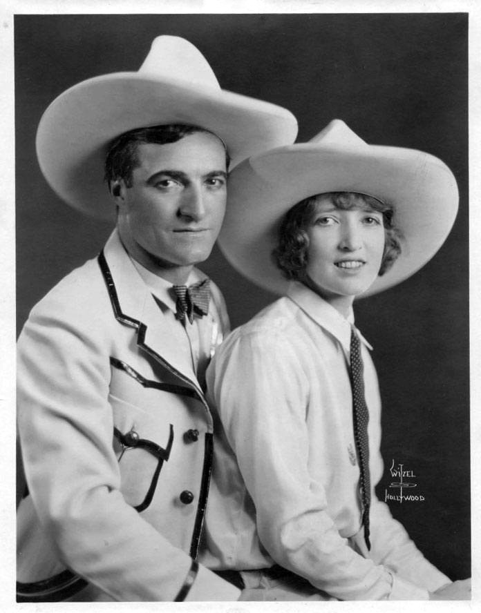 Portrait of American actors Tom Mix (1880–1940) and Victoria Forde (1896–1964) by American photographer Albert Witzel.